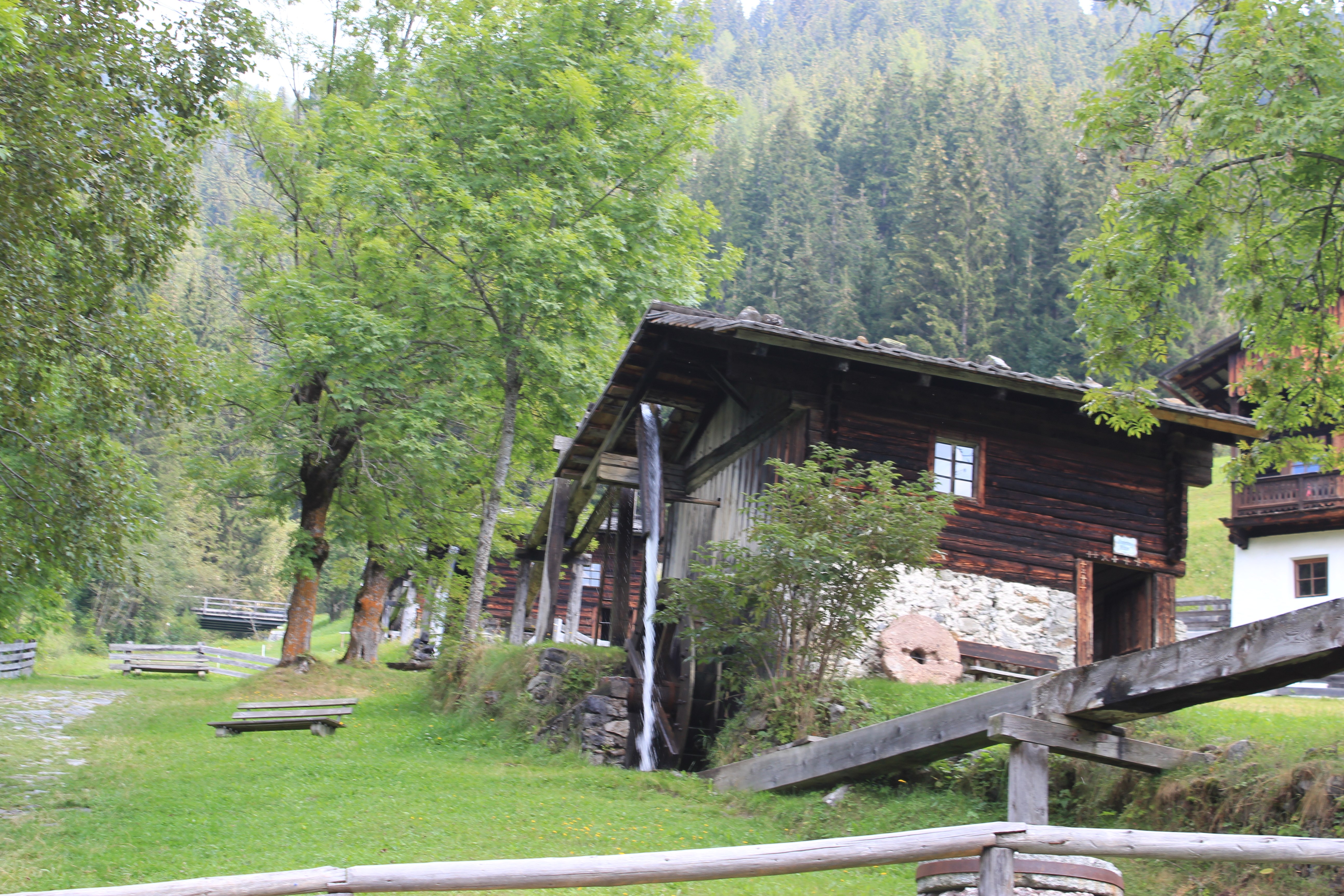 Old mills in Maria Luggau in the community Lesachtal